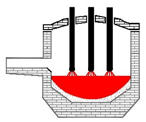 Image of "Electric Arc Furnace"